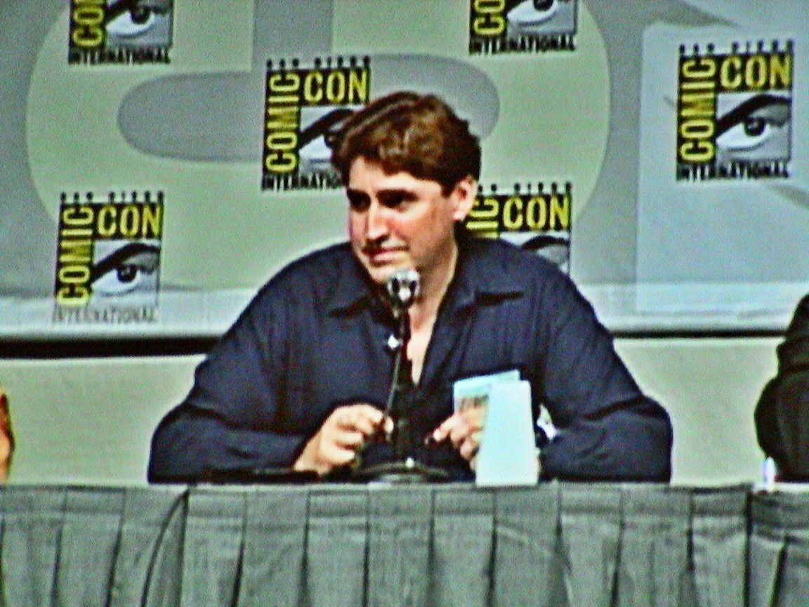 English actor Alfred Molina Flickr description: I took this picture at the San Diego Comic-Con in 2003.